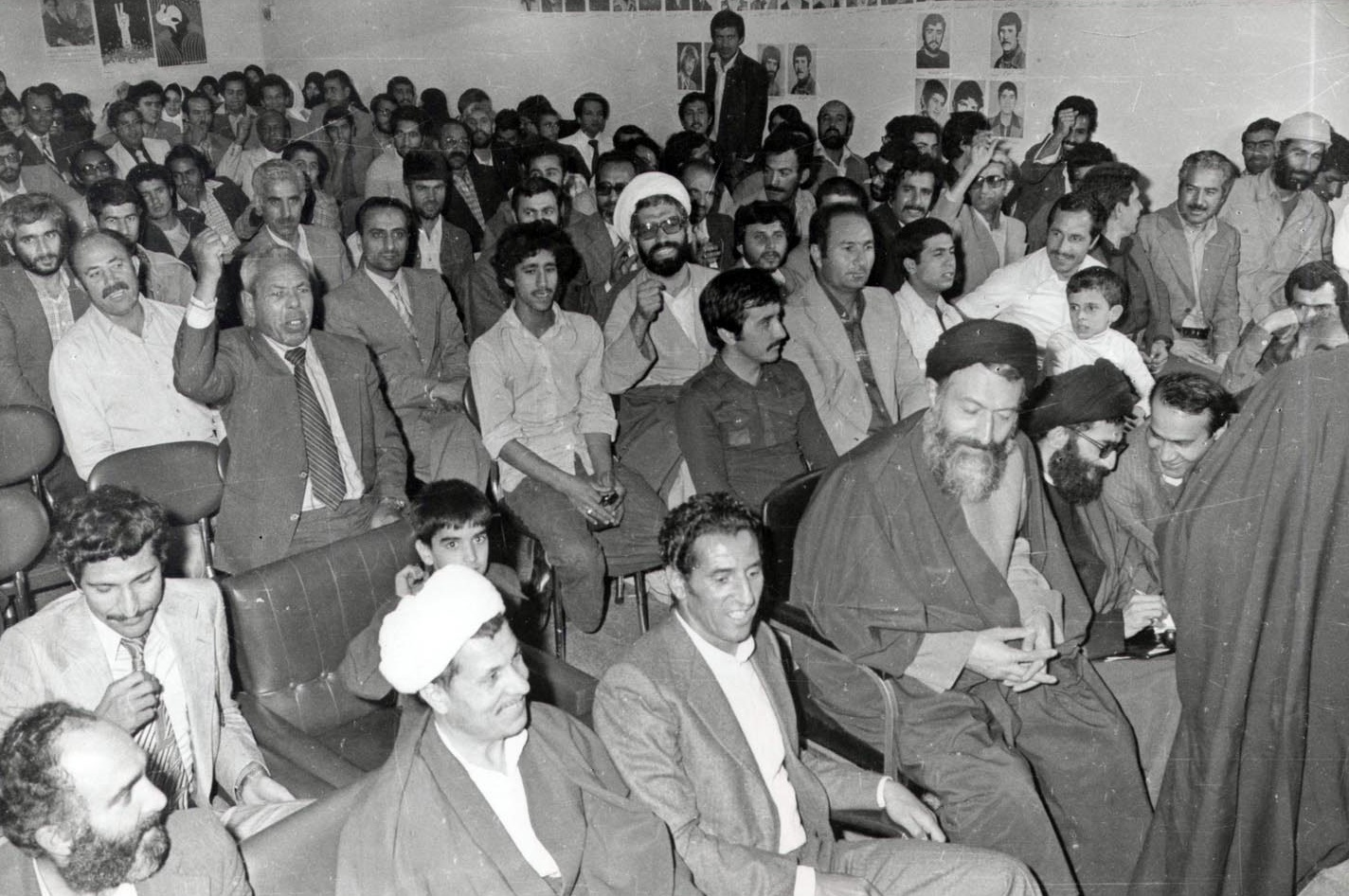 Islamic Republican Party HQ - welcome ceremony for Abdessalam Jalloud - March 1979